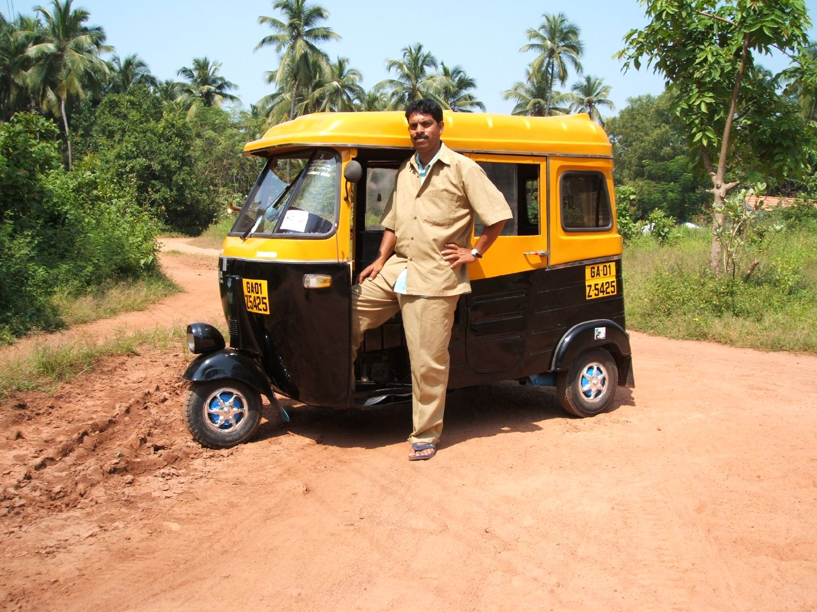 This is Appa's Bajaj autorickshaw "shoo maka tuk tuk" based in Calangute, Goa, with its proud owner.